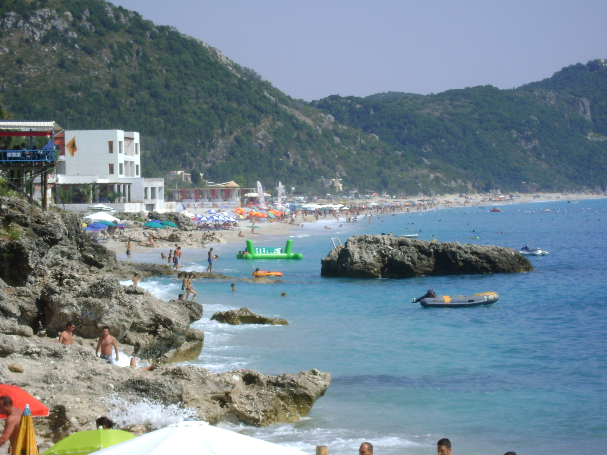 The beach of Dhërmi, Albania